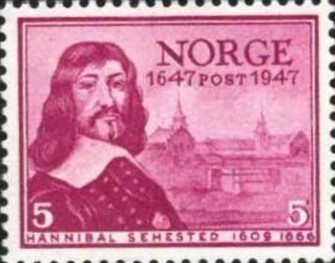 Norwegian 1947 stamp showing Karel van Mander's portrait of governor Hannibal Sehested, as part of a series of stamps with 300 years of postal history